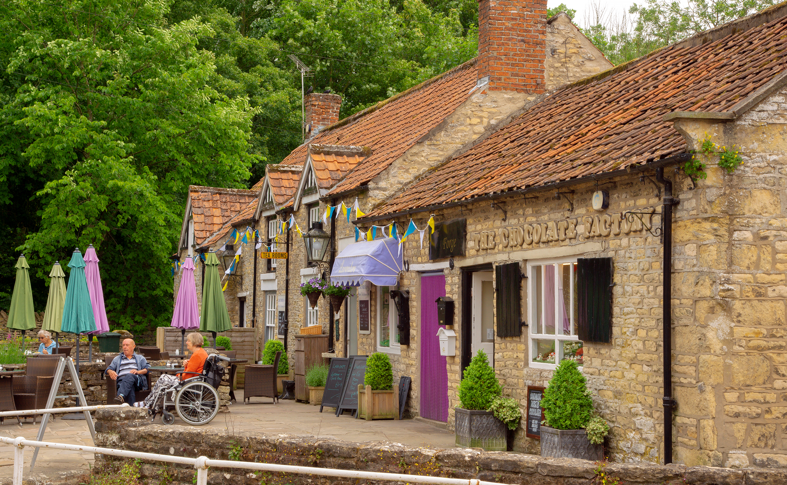 Businesses near the stream in Thornton-le-Dale